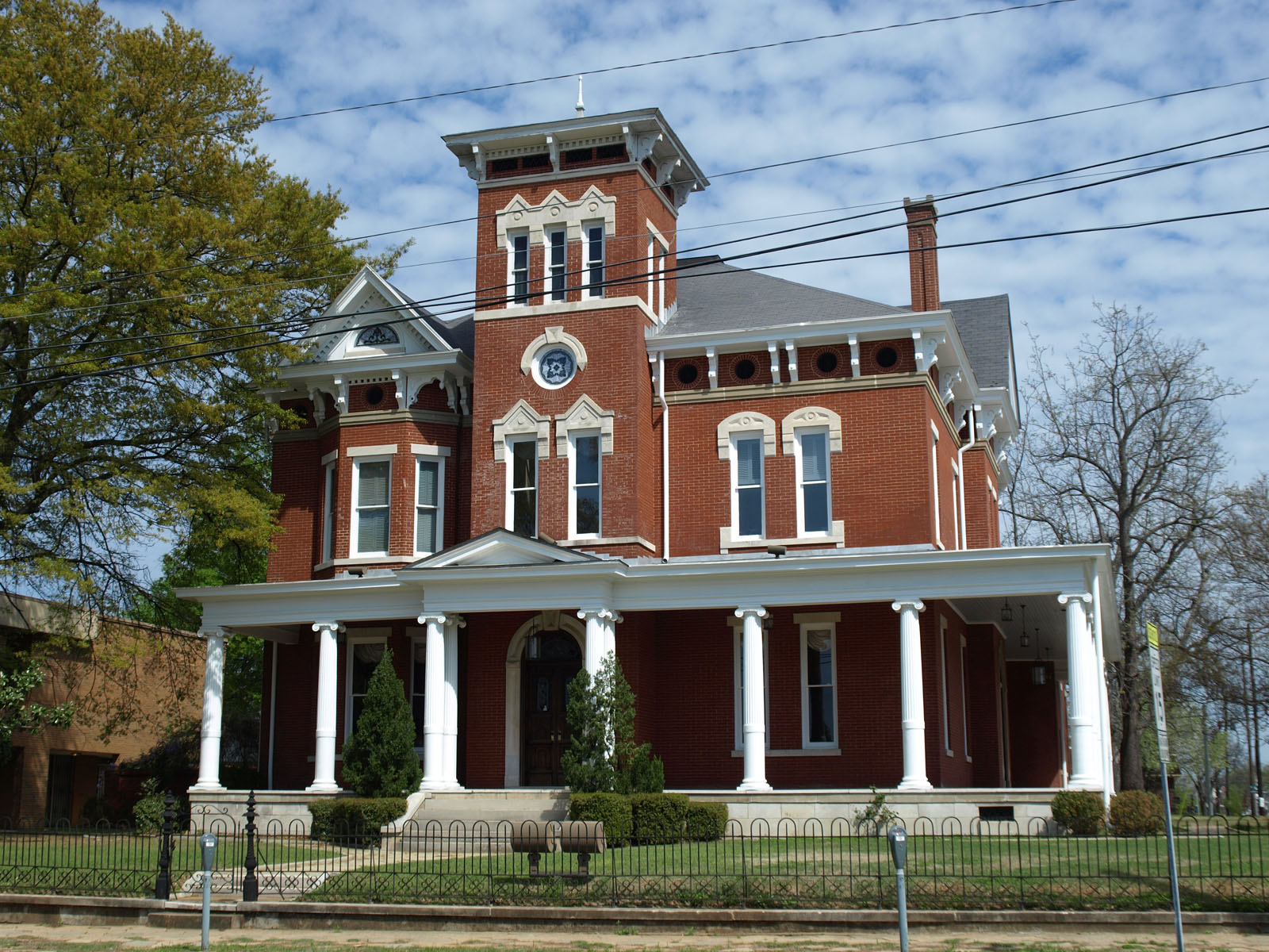 Front (west) side of the Tyson-Maner House in Montgomery, Alabama